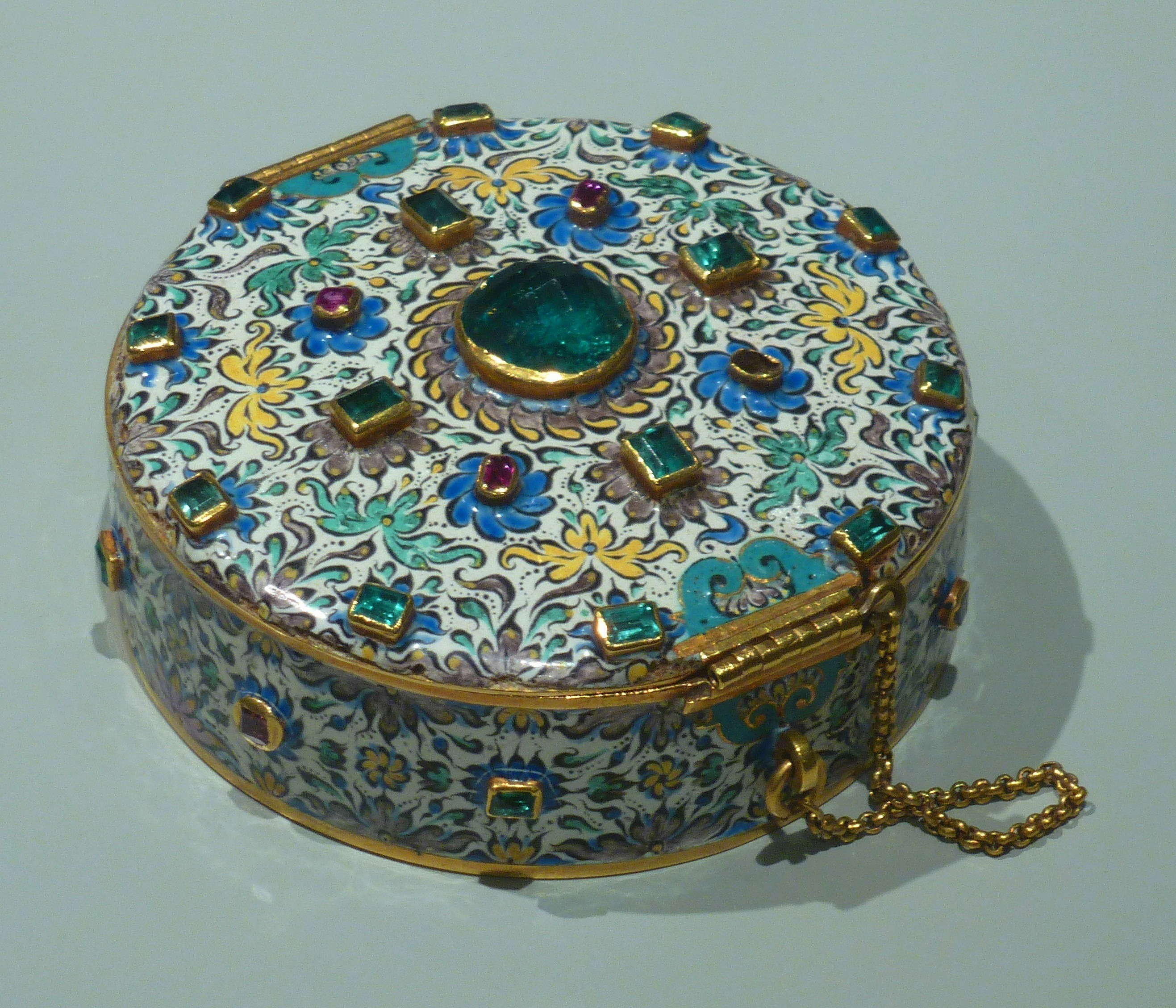 Viaticum box. Gold, enamel, emeralds and rubys. Museum of the Americas, Madrid, Spain.